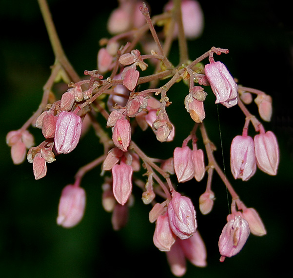 Bola or Tree Antigonon Kleinhovia hospita in Hyderabad , India.